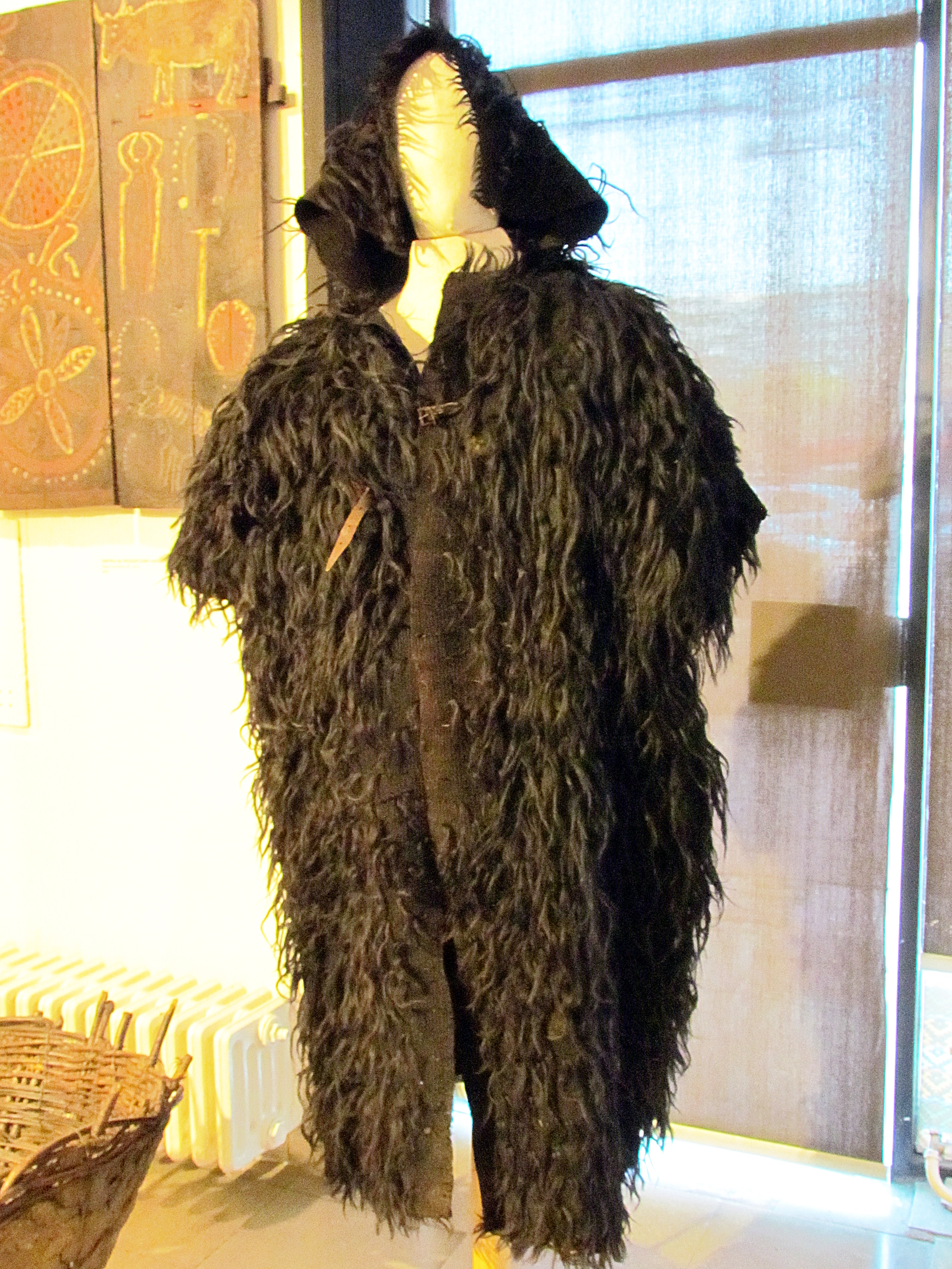 Raincoat Džoka, Ethnographic Museum, Belgrade